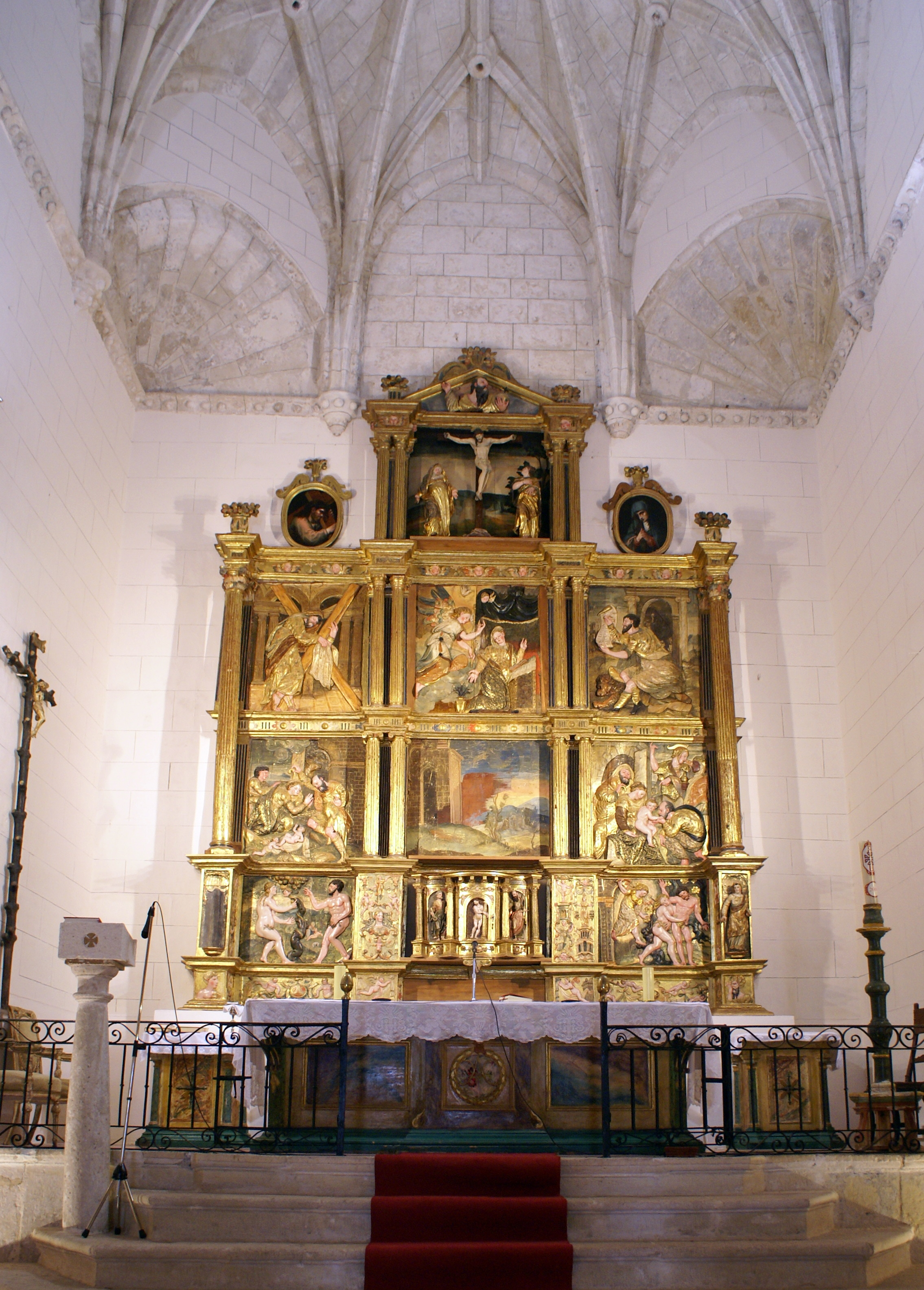 Altarpiece of St. Mary's church in Curiel de Duero, Valladolid, Spain.